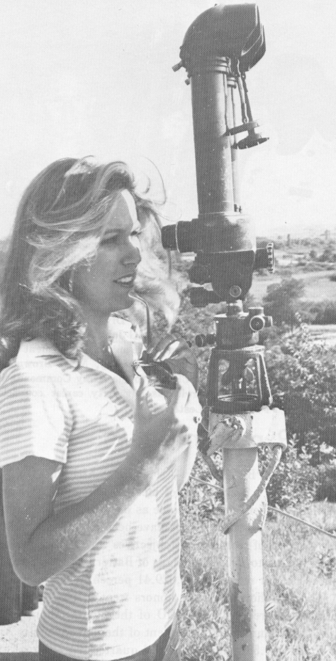 Then-reigning Miss America 1977 Dorothy Benham peers at North Korean positions through a battery commanders scope during a recent visit of the Miss America 1977 USO tour show to artillery units in Korea.